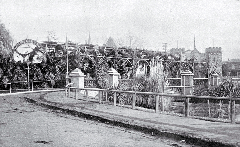 One of the arches erected in Christchurch to celebrate the visit of H.R.H. Duke of Cornwall and York. It spanned the Victoria Bridge.